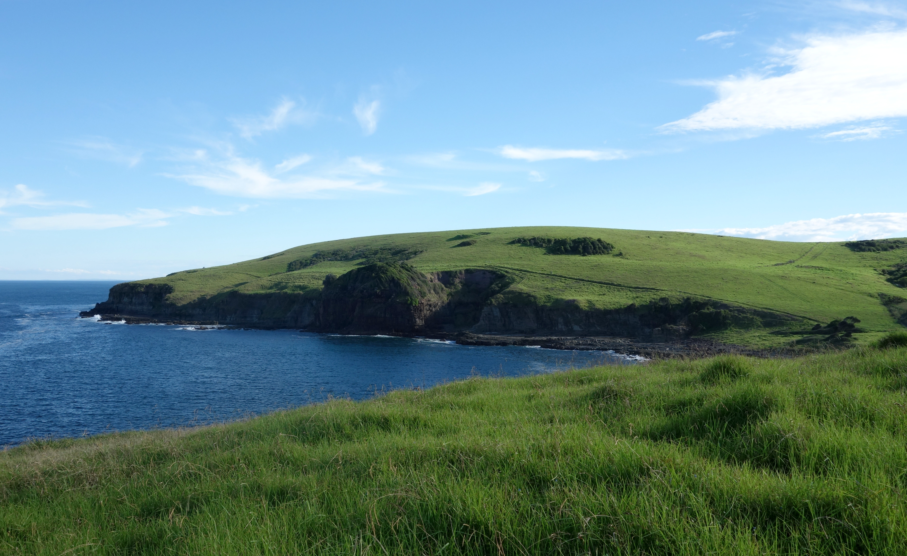 A part of the coastline along the Gerringong to Kiama coastal walking path.